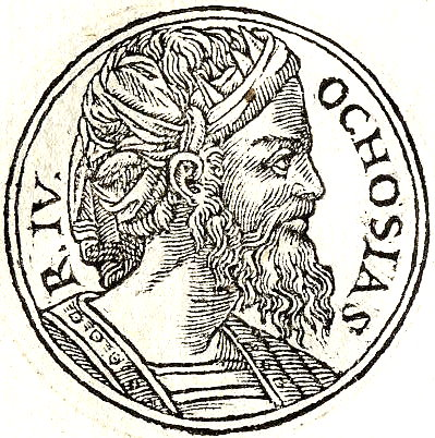 Ahaziah of Judah was king of Judah, and the son of Jehoram and Athaliah, the daughter (or possibly sister) of king Ahab of Israel.